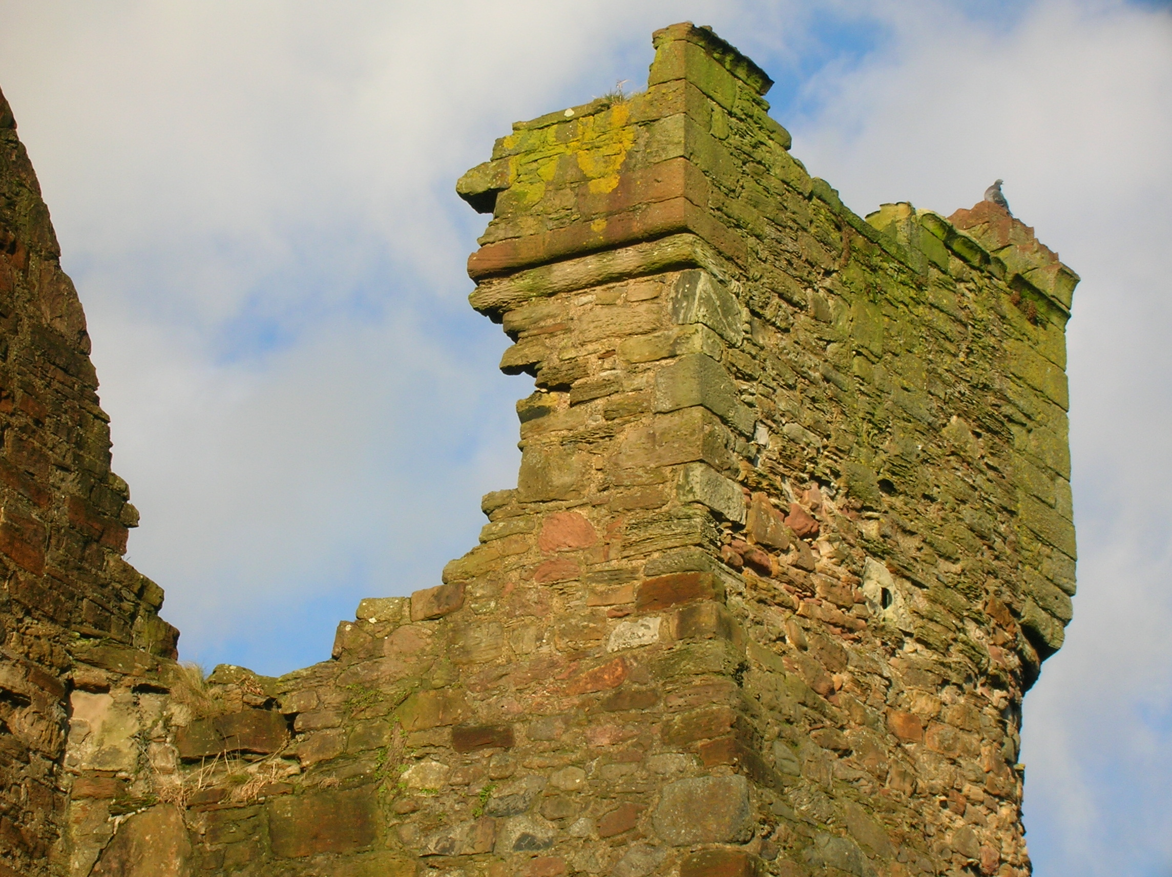 Seagate Castle, Irvine, North Ayrshire, Scotland. Detail of the South-East tower.